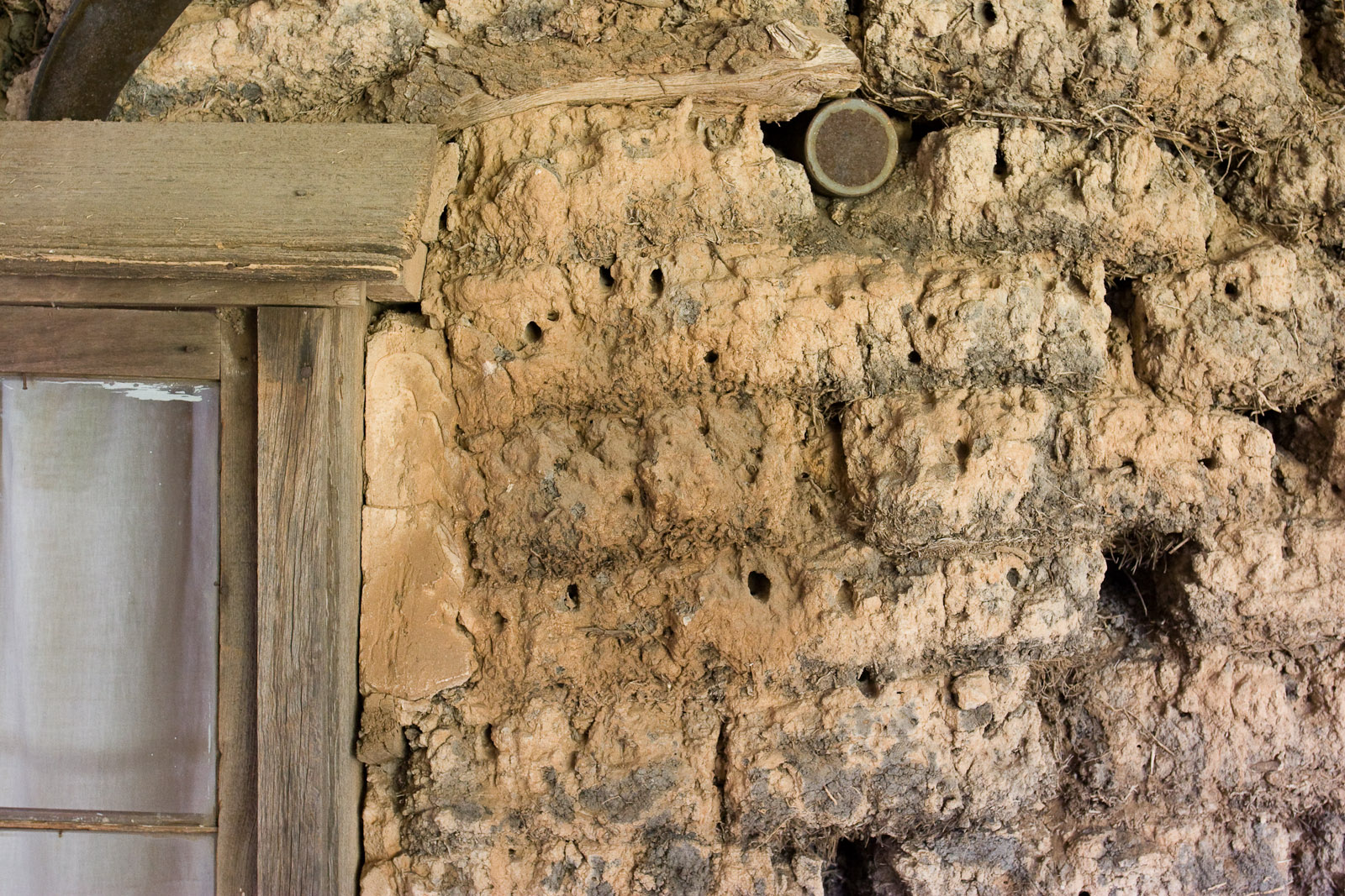 Sod House Detail